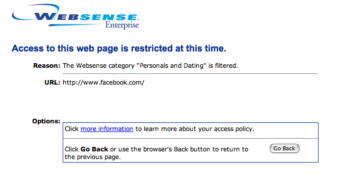 A screenshot showing Websense blocking access to Facebook in an organisation where the "Personals and Dating" category is filtered.